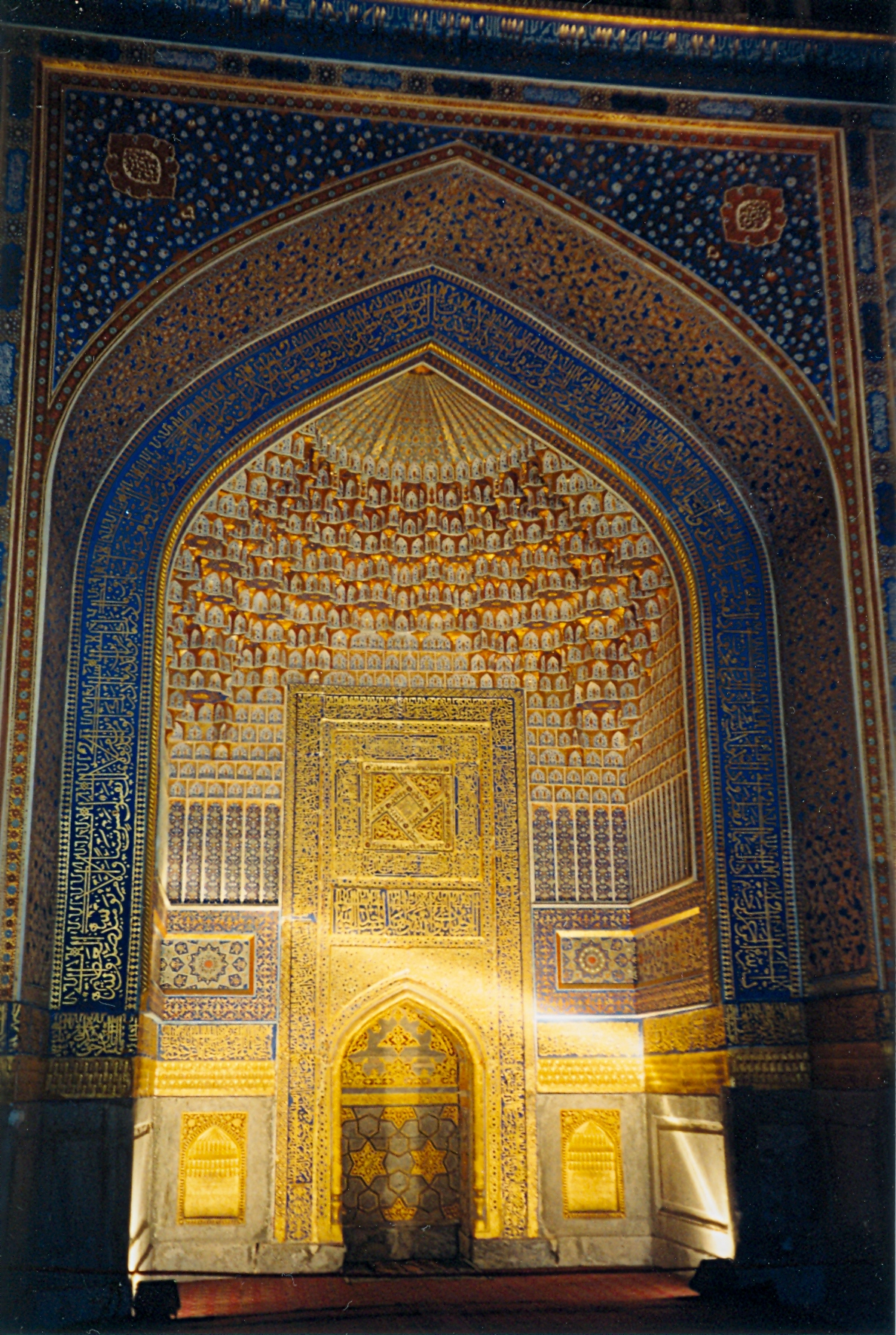 Decorations inside Tilla-Kari Medressa, Samarkand, Uzbekistan.